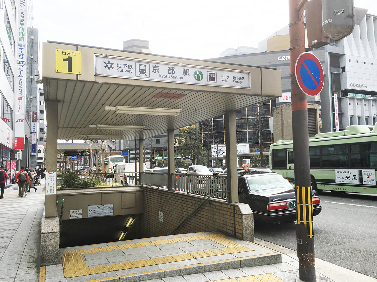 A subway entrance of Kyoto Station